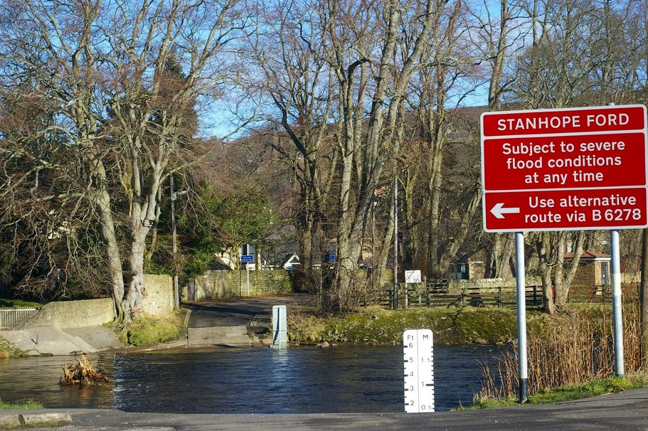 Ford in Stanhope, County Durham, UK